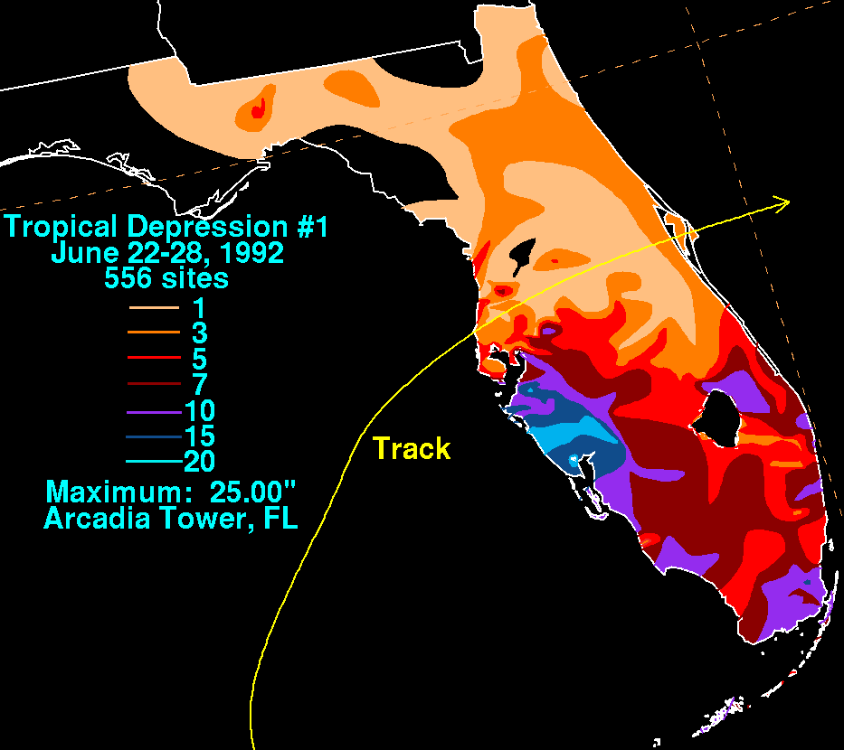 Storm total rainfall map of Tropical Depression One during June 1992.